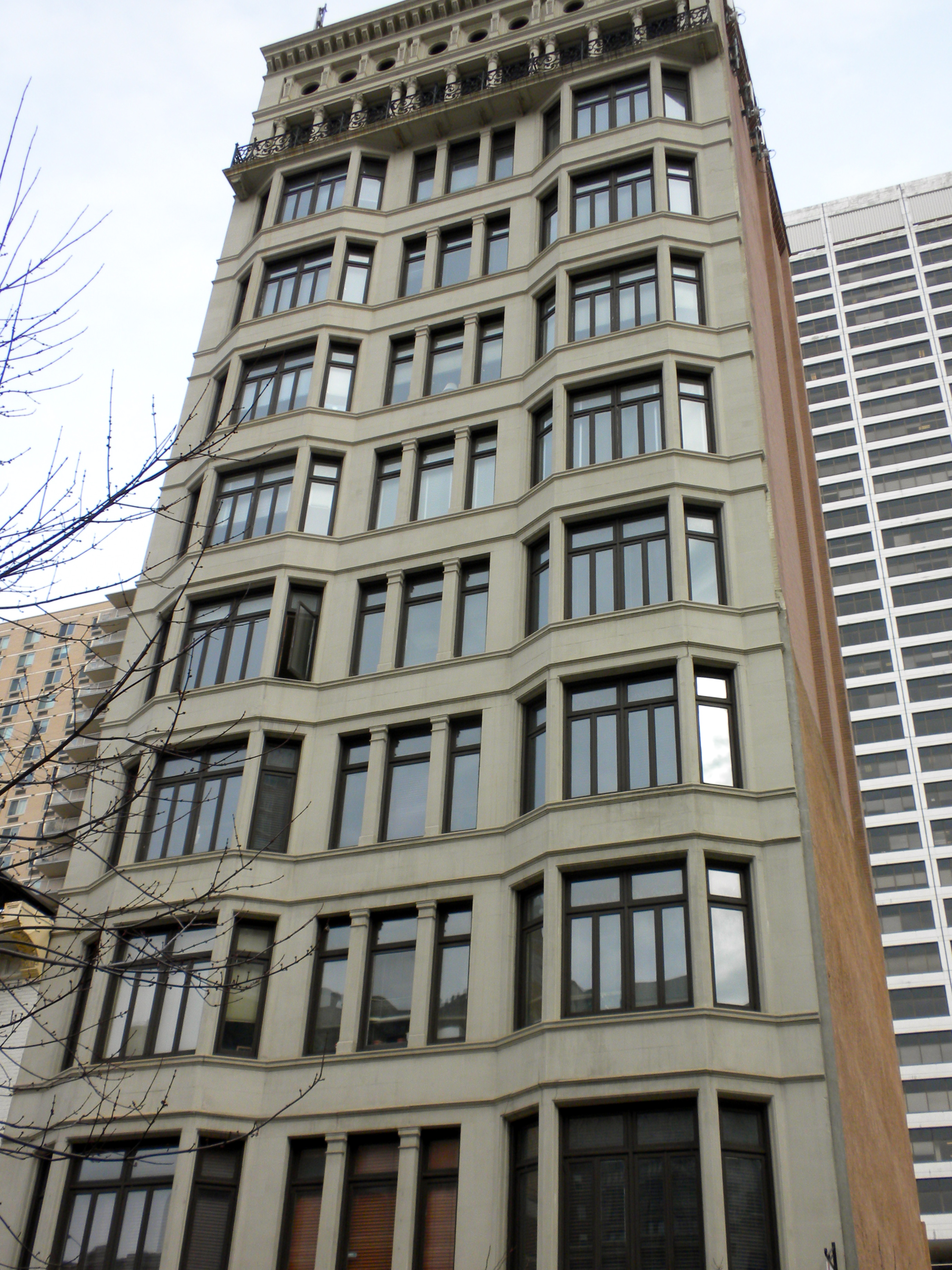 Physicians and Dentists Building in Philadelphia. On NRHP since November 5, 1987. At 1831–1833 Chestnut Street in the Rittenhouse Square West neighborhood of Center City. Just down the Street from the Belgravia Hotel and A.J. Reach Historical Marker